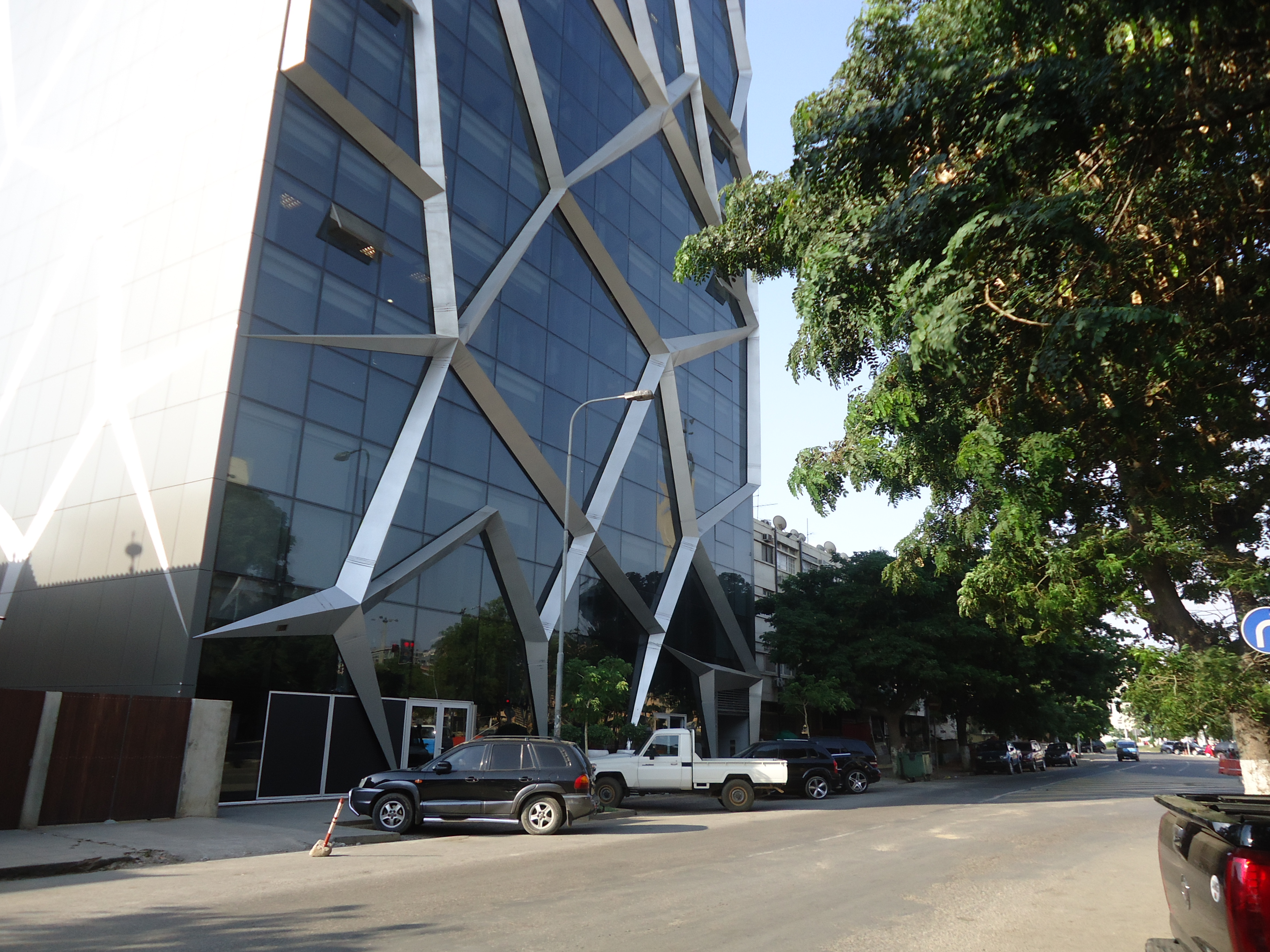 Streets and buildings of Luanda. Photo by Fabio Vanin, Luanda, 2013.